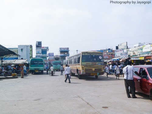 Bus terminus